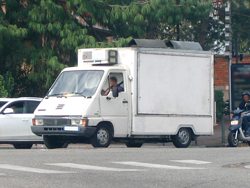 "Phase 1" Renault Master I (1980-92).